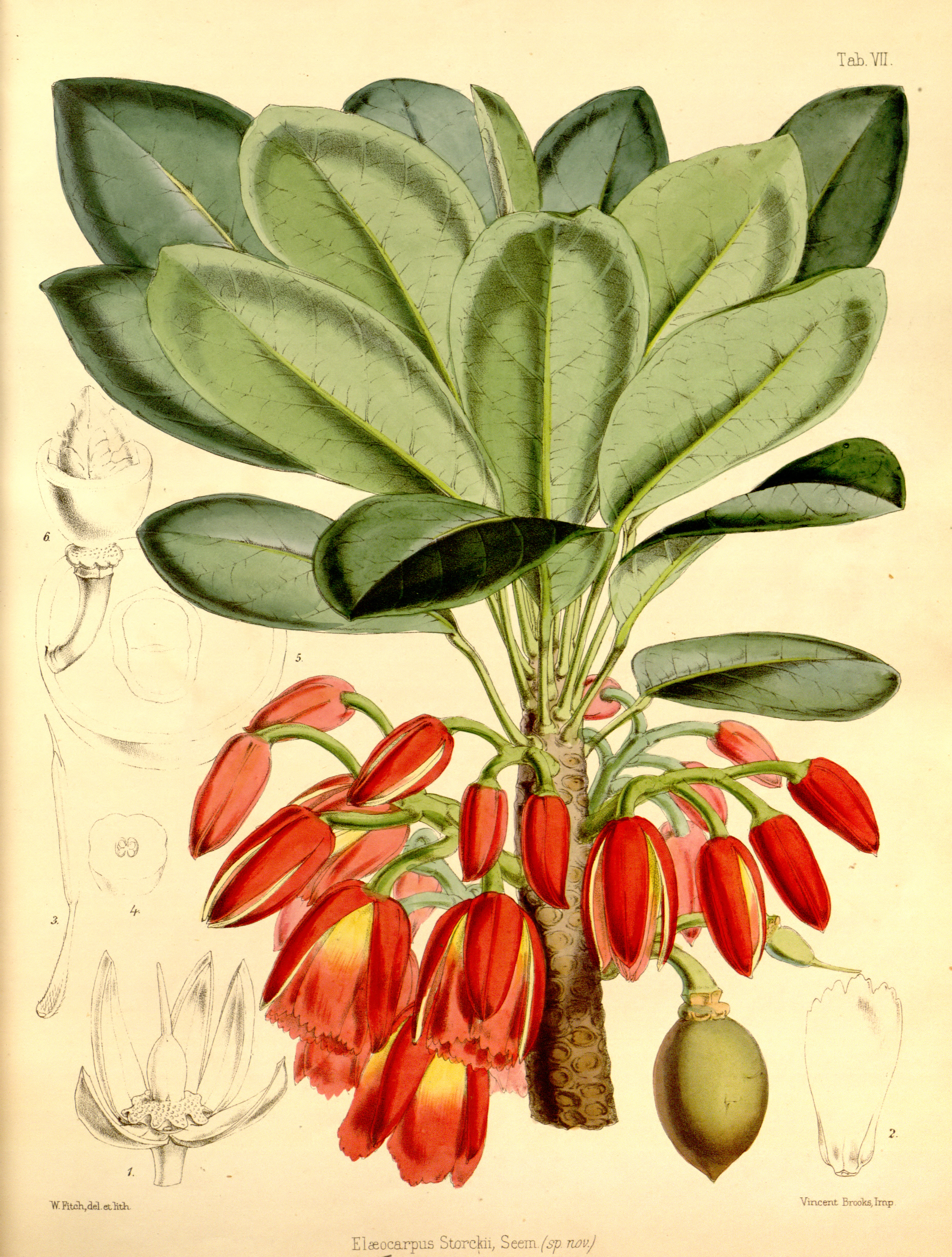 Elaeocarpus storckii from "Flora Vitiensis", vol. 2: t. 7 (1873)